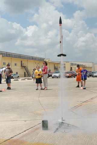 Trey Soule, center, presses the ignition switch launching his model rocket into the air during Starbase Kelly at Lackland Air Force Base, Texas, Aug. 10, 2007. Starbase Kelly, sponsored by the 433red Airlift Wing, is a five-day camp focused on providing fourth, fifth and sixth-graders with education on math, science and technology during the summer. (DoD photo by Alan Boedeker). Released But Not Accessioned (Cleaned and/or Corrected)